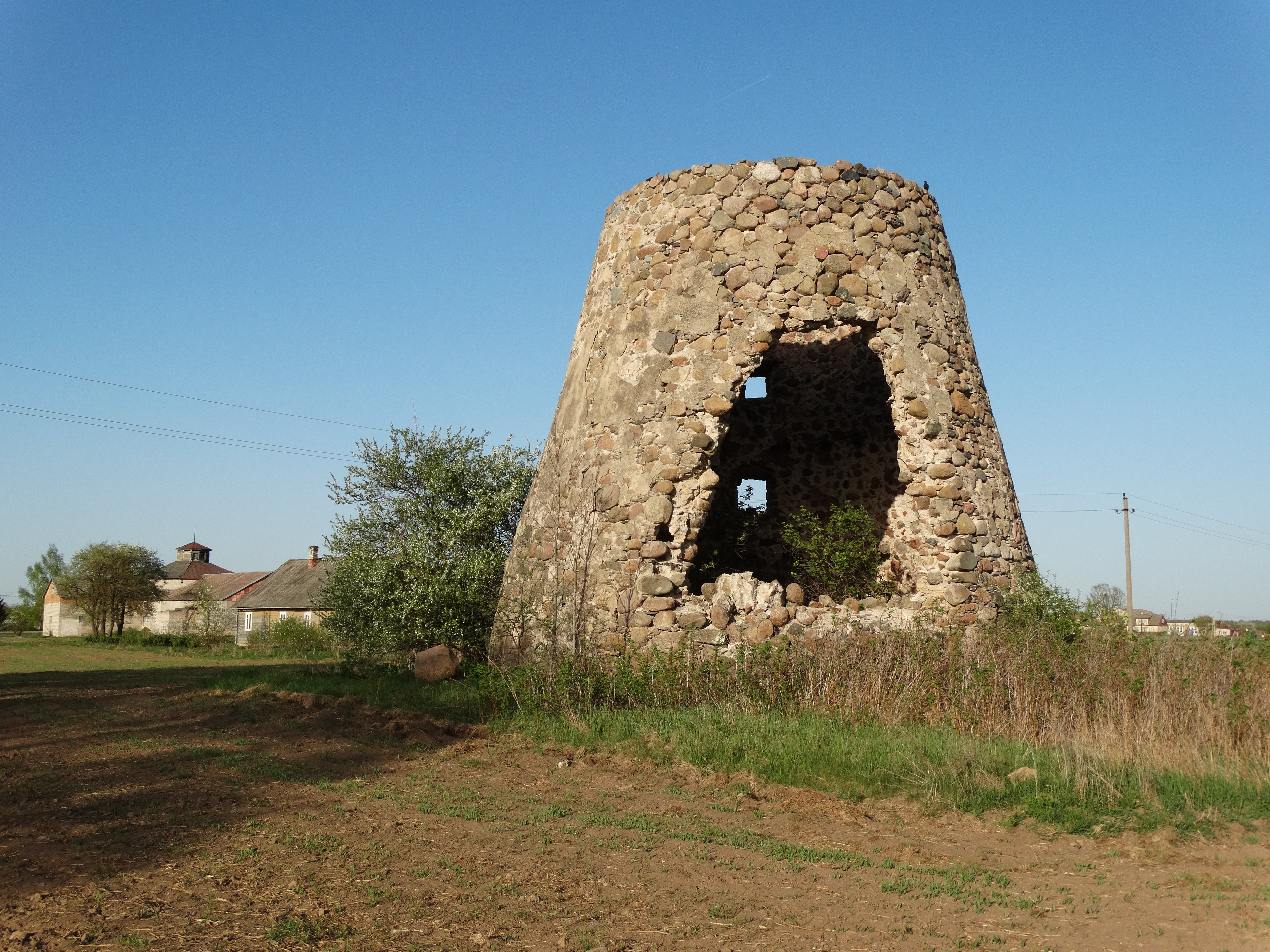 Laipuškiai, windmill, Pakruojis district, Lithuania